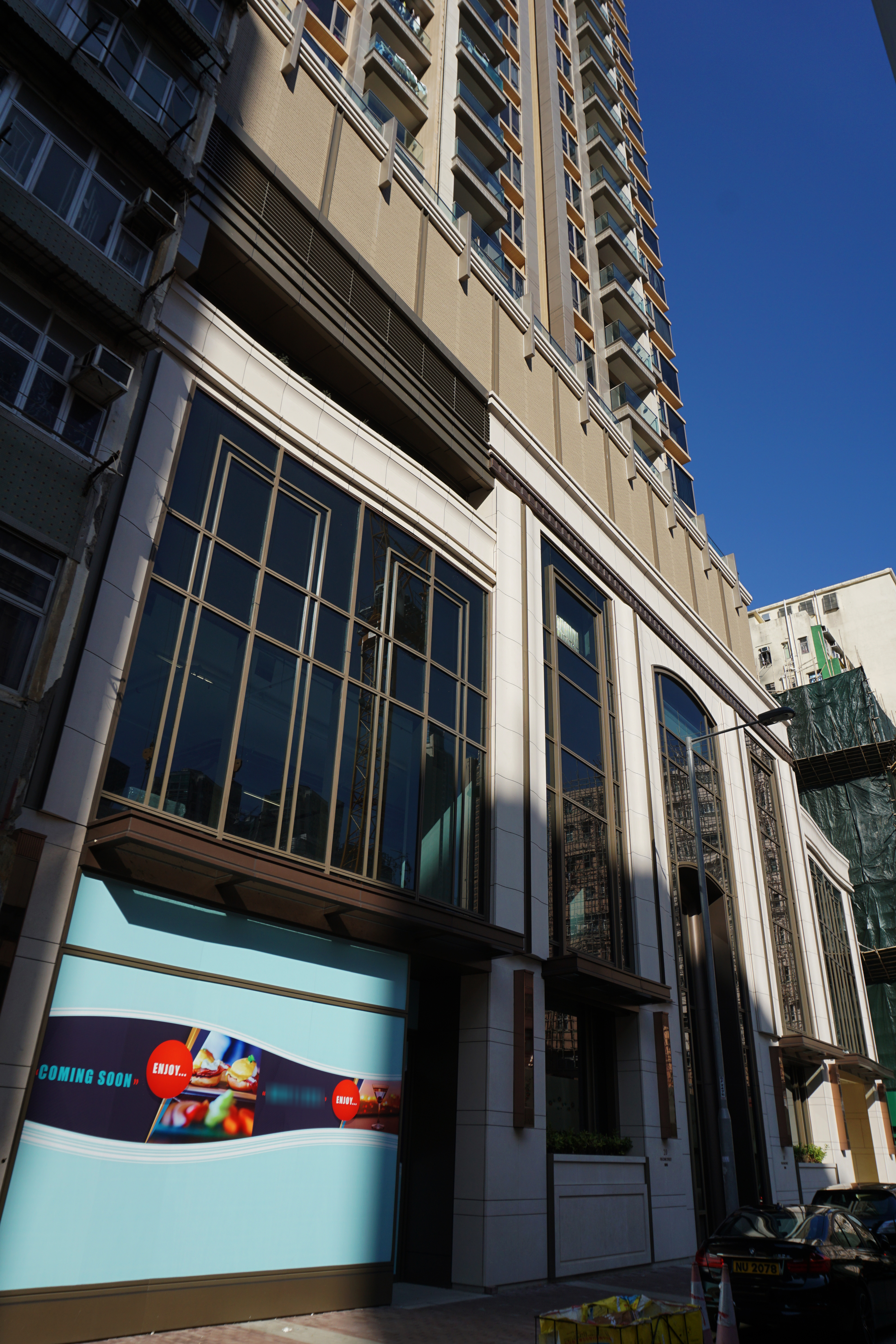 Upper West in Tai Kok Tsui, Hong Kong.